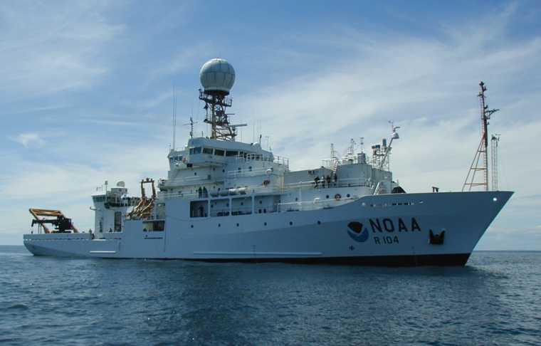 NOAA research ship Ronald H. Brown.